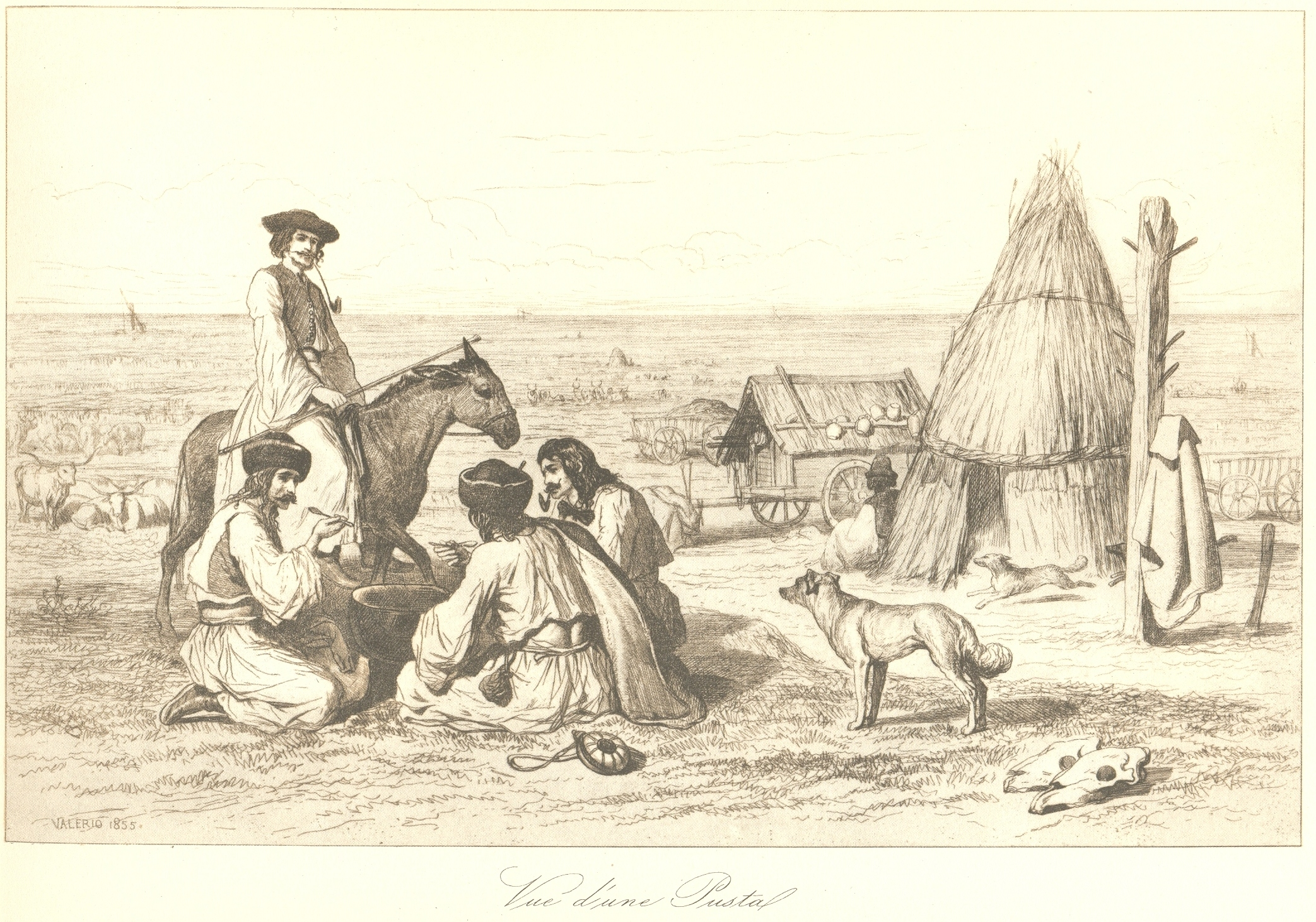 Herders (cattle?) in the Pusta, Great Hungarian Plain, 1855, Hungary